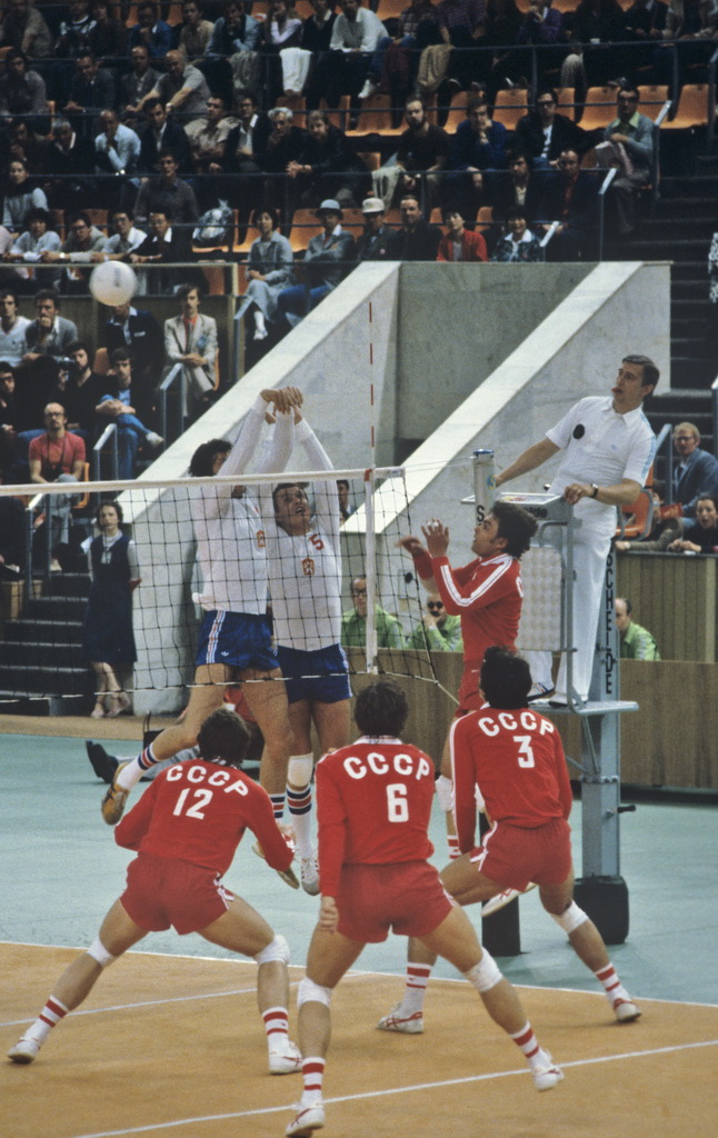 “USSR vs. CSSR. 1980 Olympic Games”. Small Arena in Luzhniki. Volleyball at the 22nd Olympic Games. Men. USSR vs. CSSR. USSR wins 3-1.